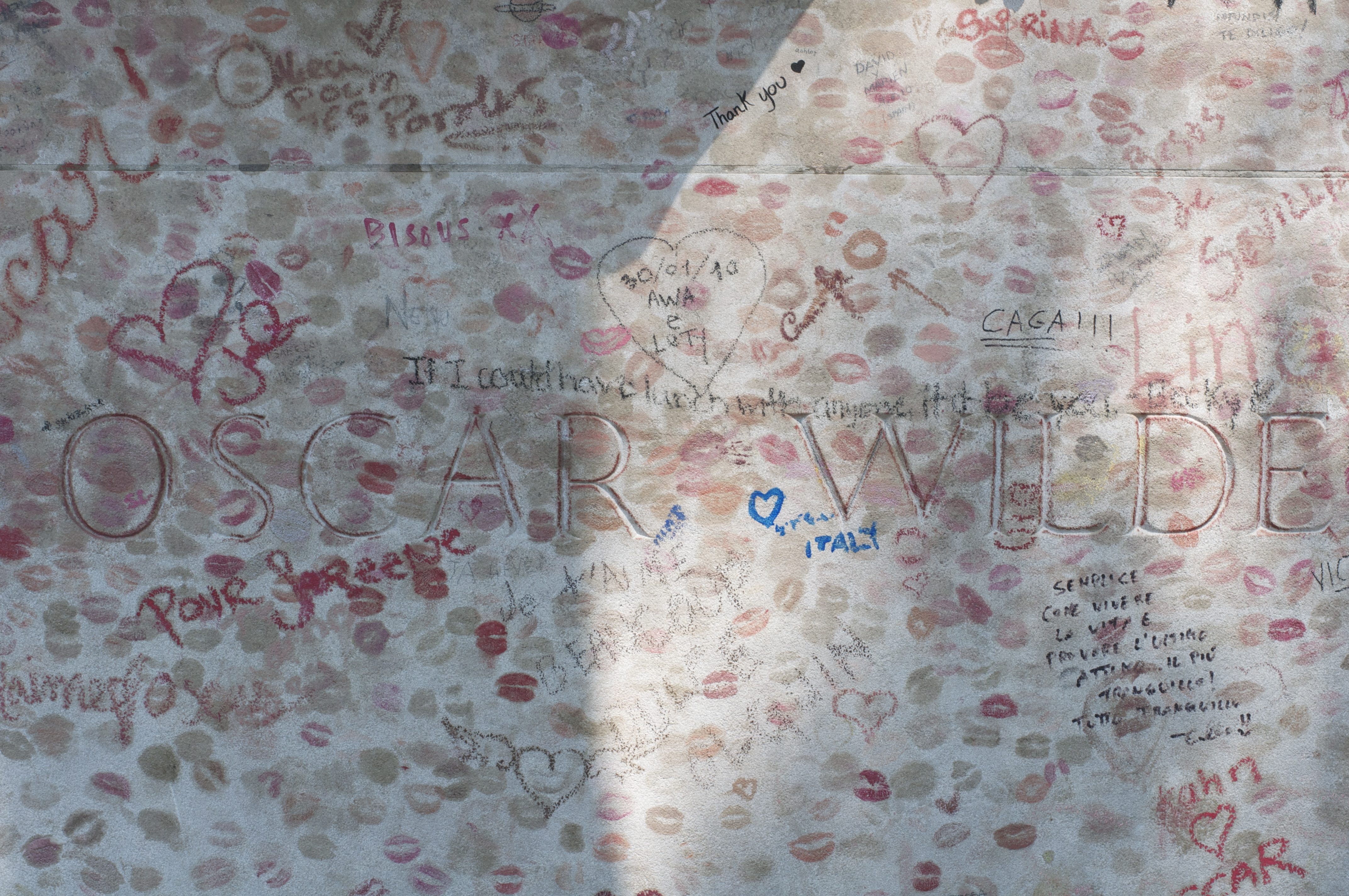 Close-up of the Wilde´s tomb.